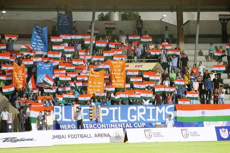 The Blue Pilgrims members can be seen displaying the blue pilgrims banner in June 2018, at Mumbai to support the India national football team.